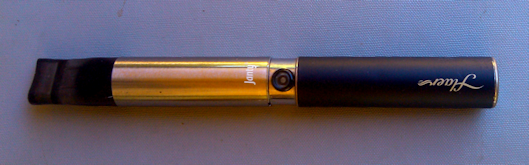 E-cigarette parts mounted together